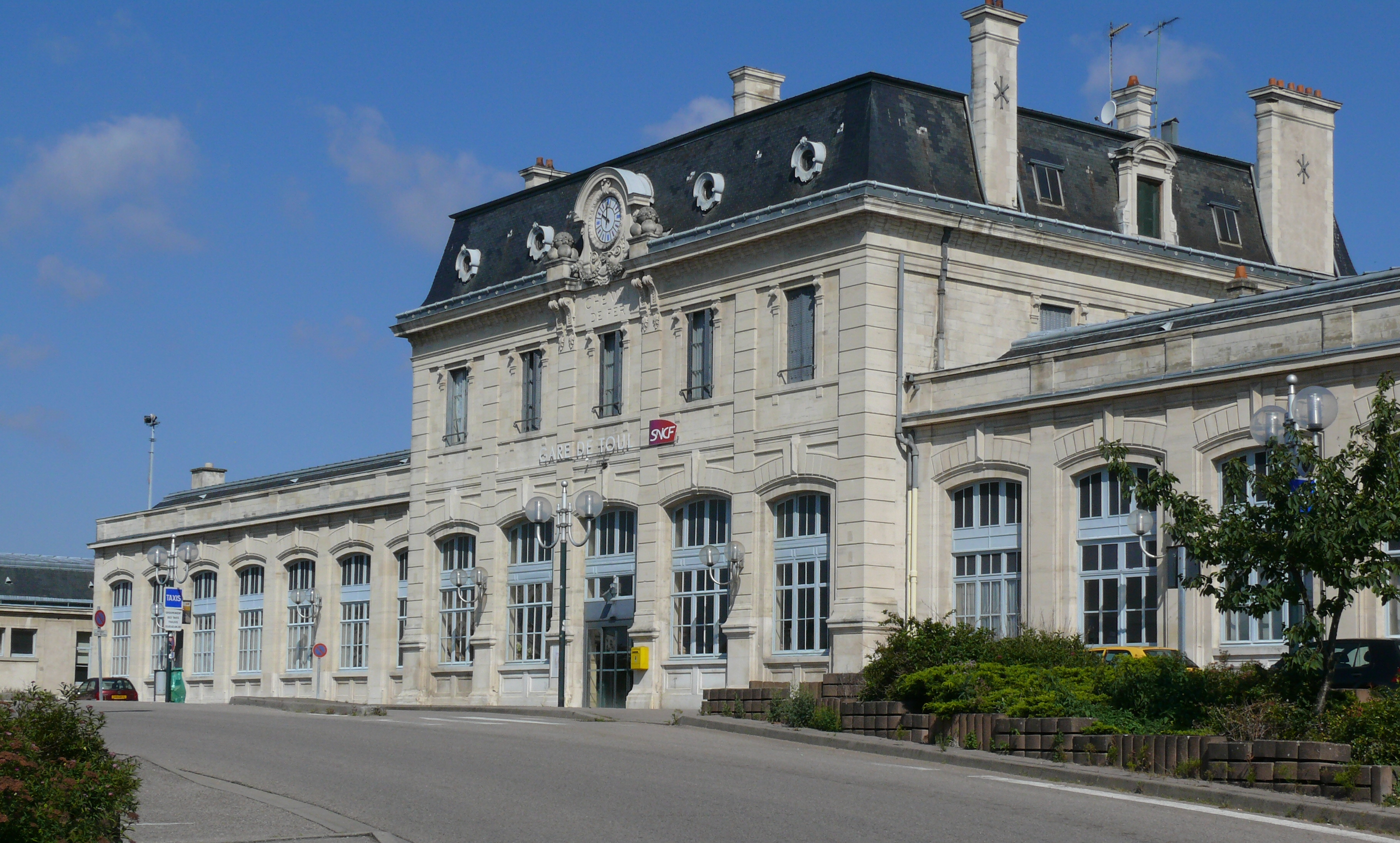 SNCF Toul station, in Meurthe-et-Moselle, France.